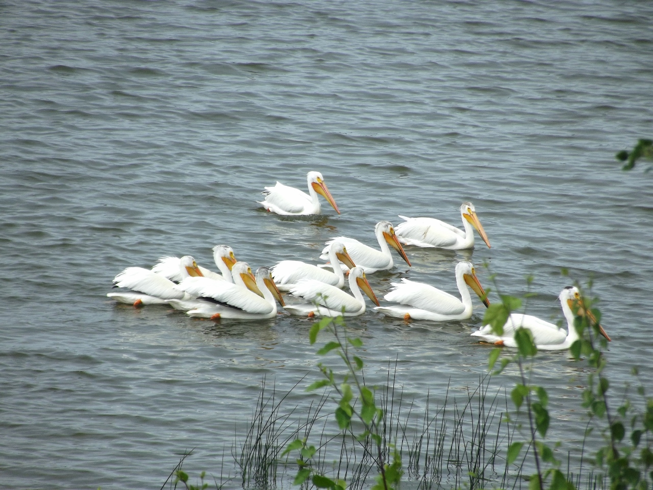 A group of Pelicans on Astotin Lake